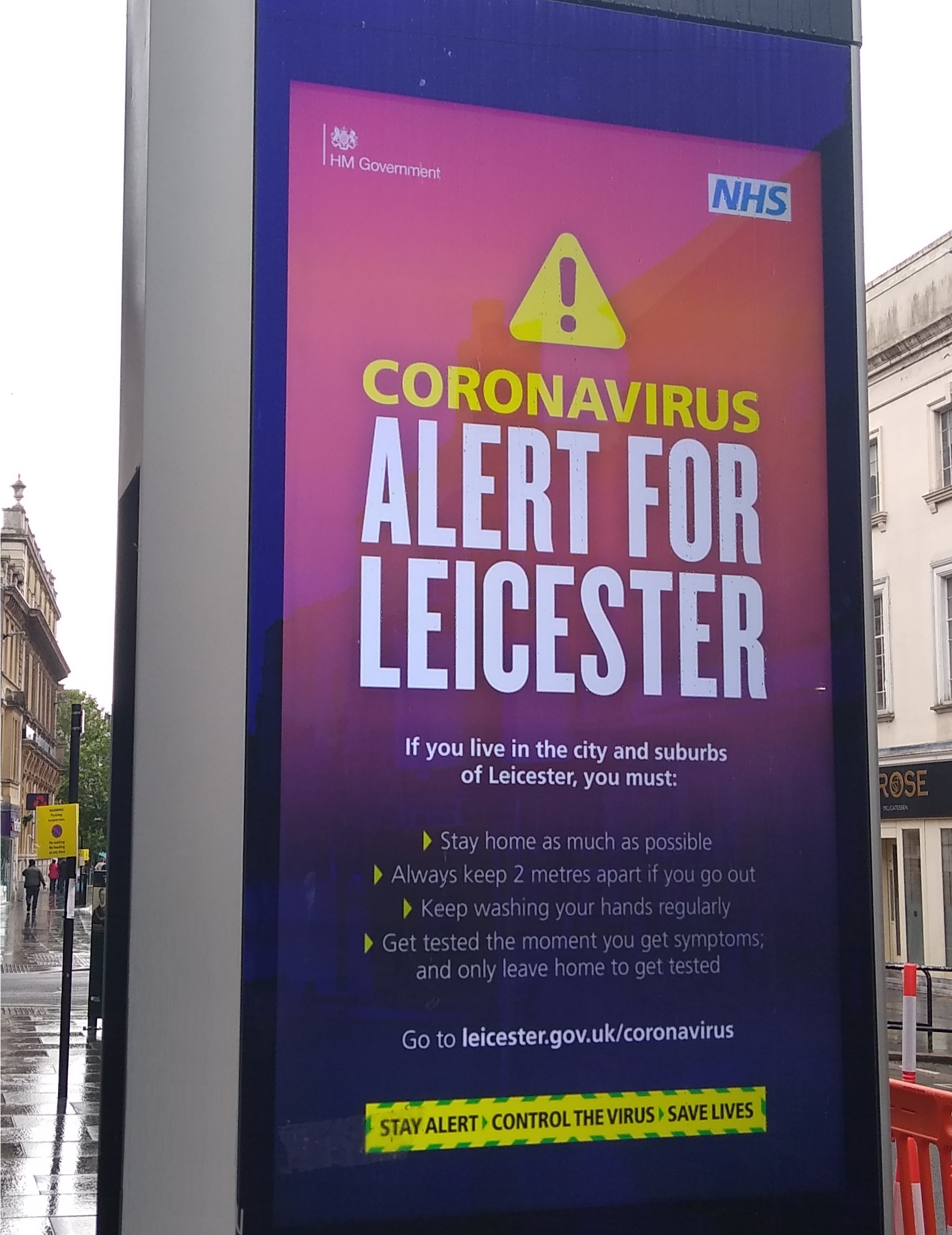 Digital billboard displaying a warning for coronavirus conditions in Leicester